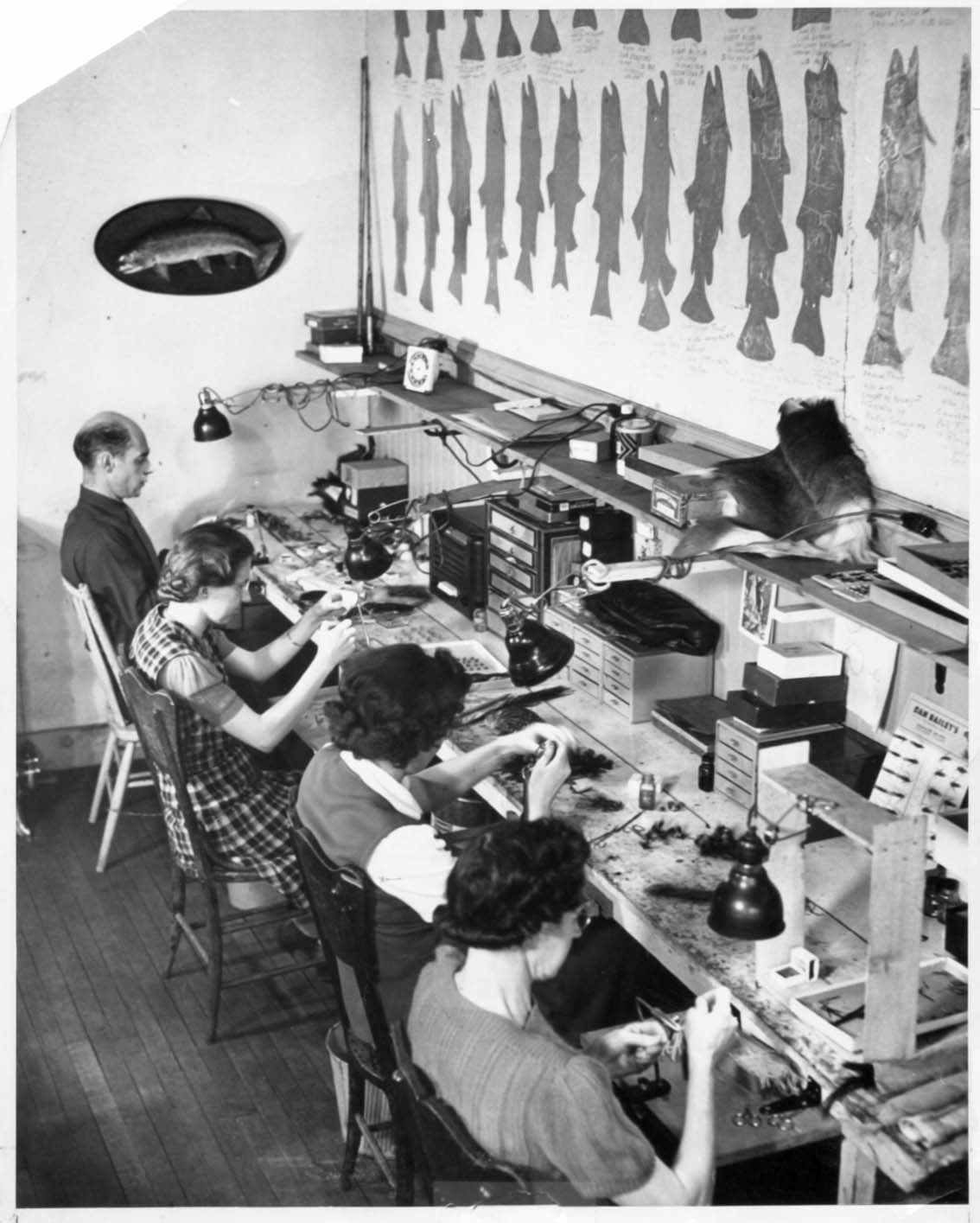 Fly tying operations and Wall of Fame in Dan Bailey's Fly Shop, circa 1940s.